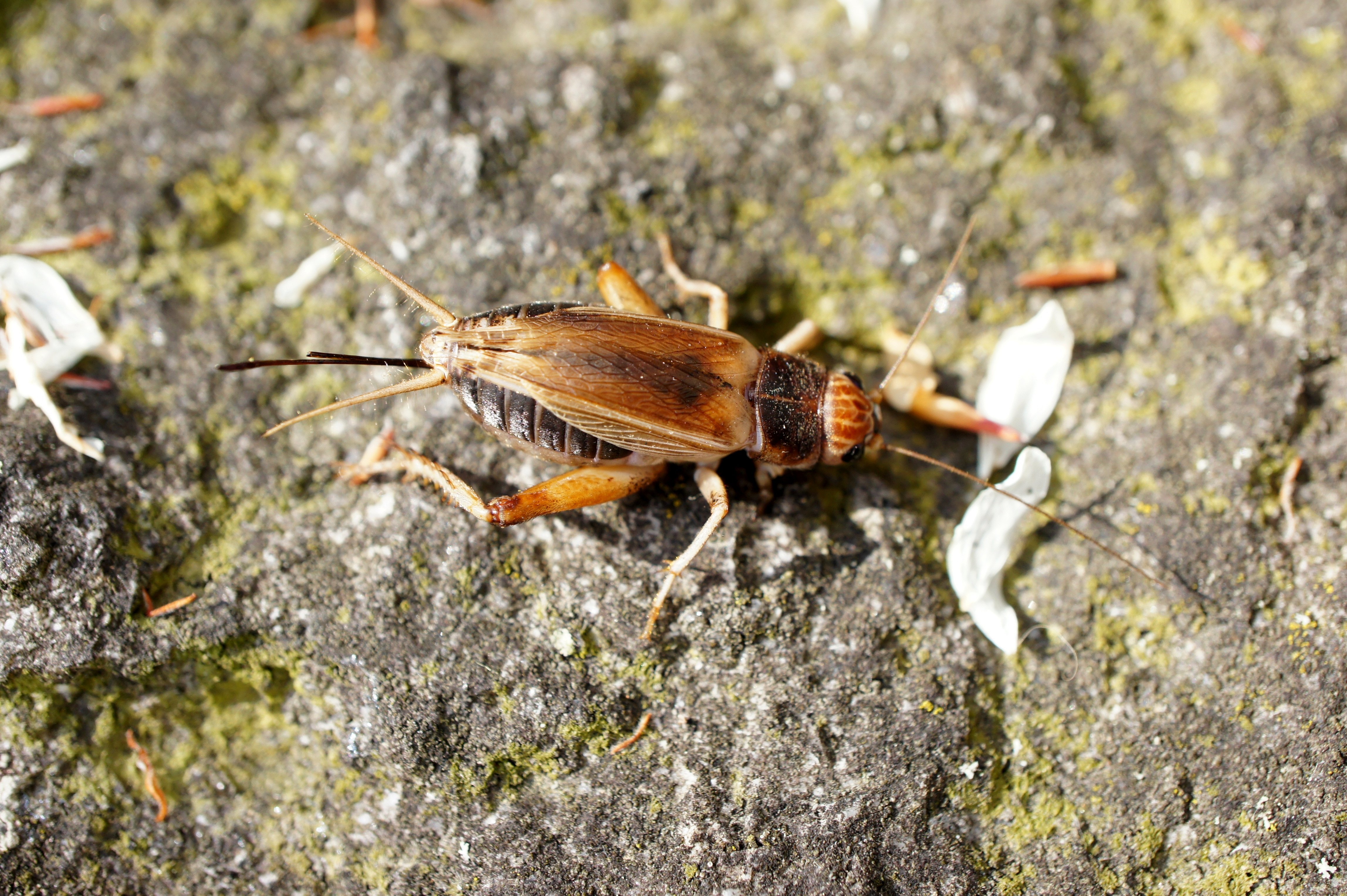 Gryllus assimilis, female, captive breeding